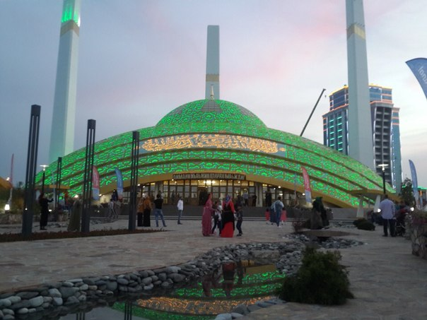 Mosque in the Argun city